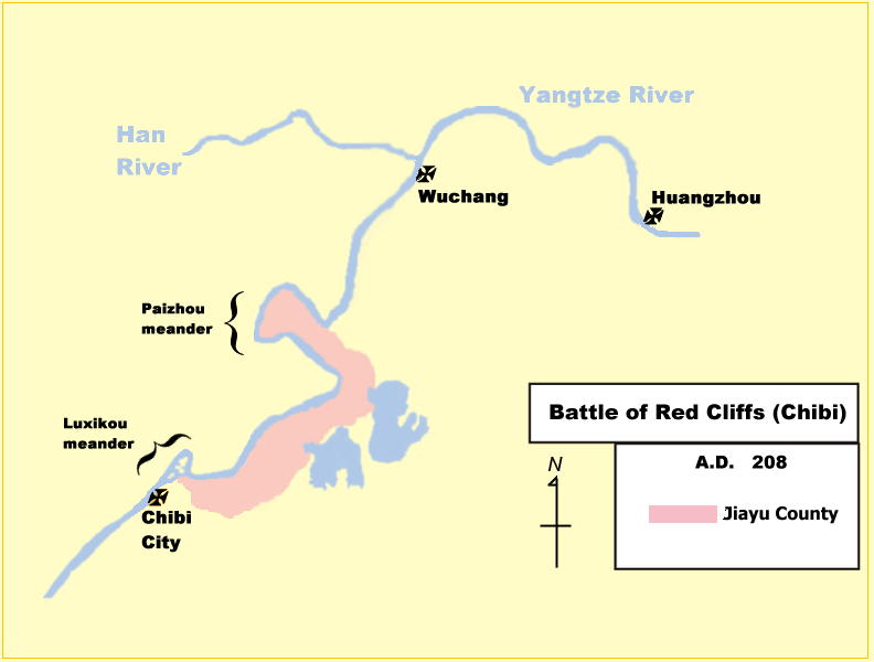 Possible locations of the Battle of Red Cliffs